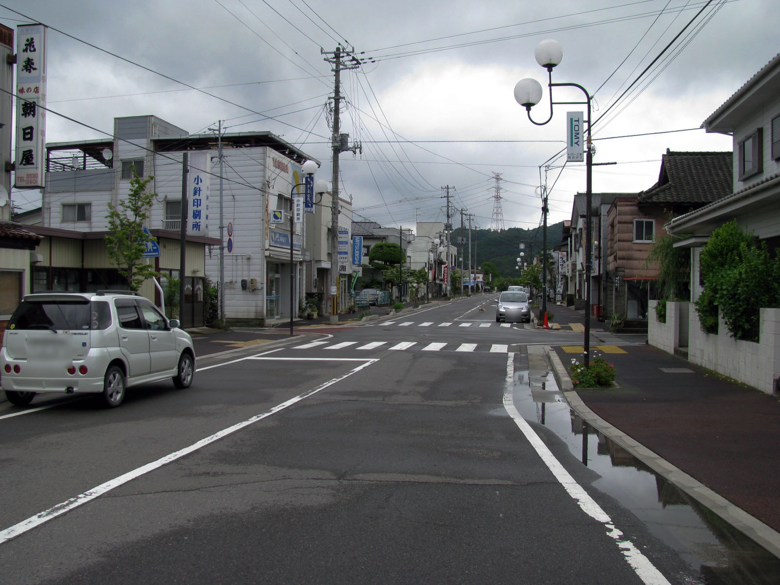 Iwaki-Asakawa Station on Suigun Line